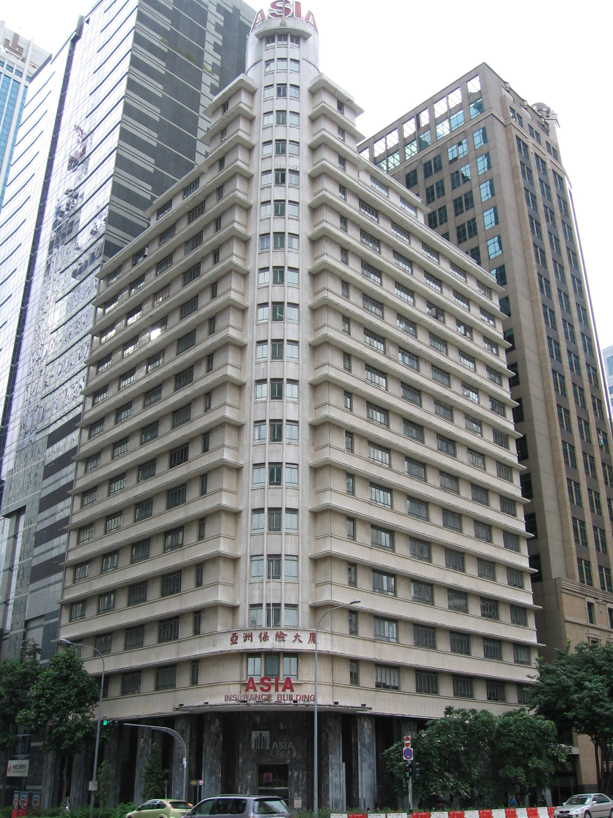 Asia Insurance Building, Singapore Taken by User:Sengkang of ENglish.Wikipedia.